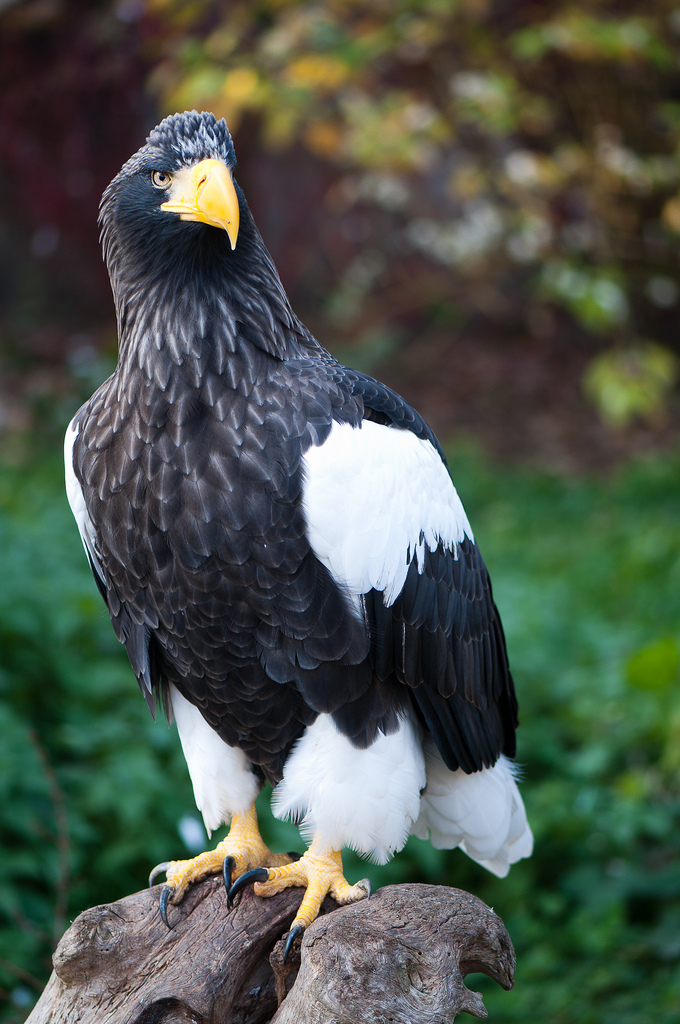 A Steller's Sea Eagle at Heidelberg Zoo, Germany.